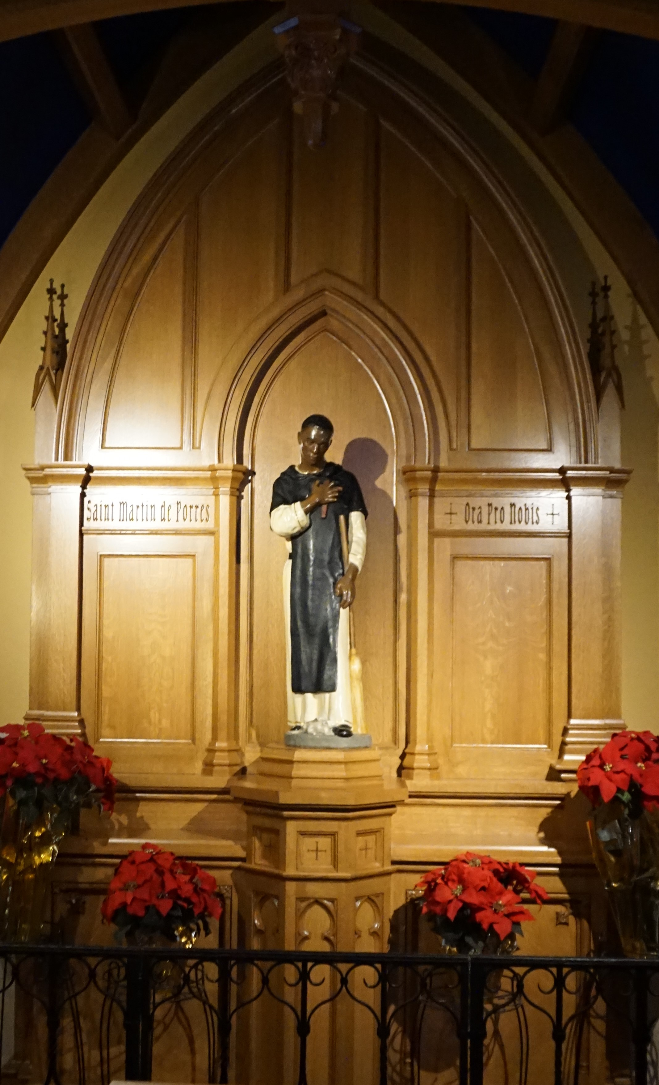 Statue of St. Martin de Porres by Rev. Thomas McGlynn, O.P. installed in a Shrine in St. Dominic Church (Washington, DC)